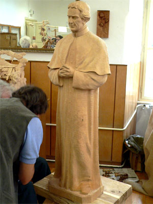 Jonh Bosco, woodcutter Jan Rejman.